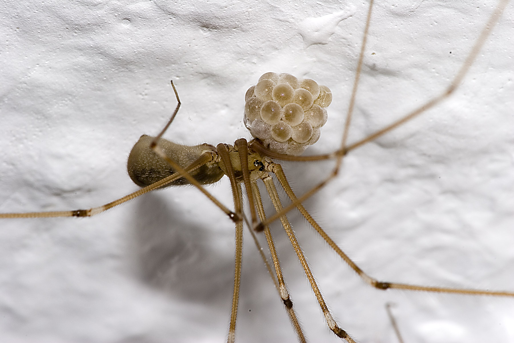 Description: Pholcus phalangioides with egg cocoon; Many thanks to user:Brummfuss and user:DocTaxon for determination!